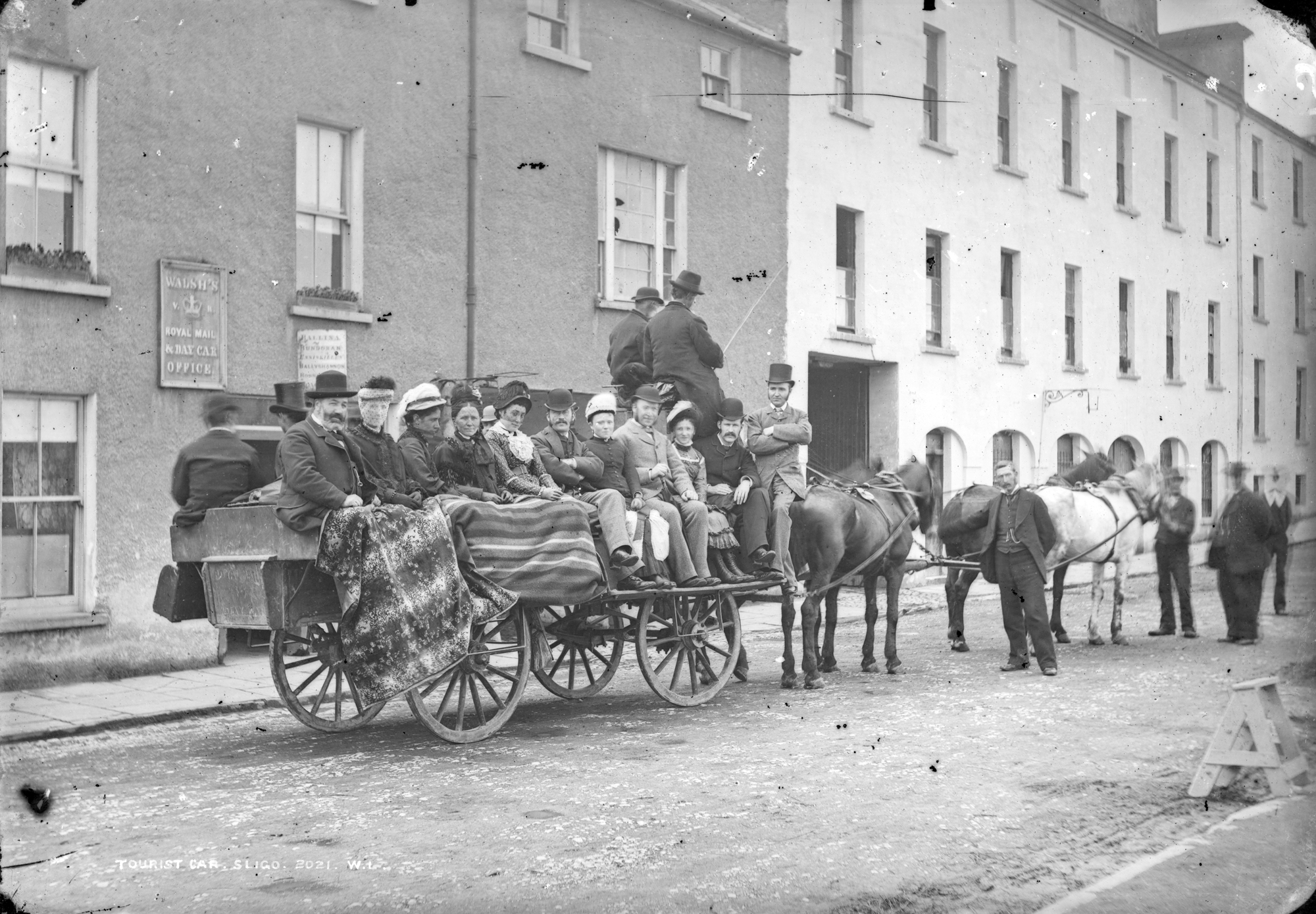 Not even room for a little 'un on this packed day car in Sligo town. Destinations advertised outside Walsh's were Ballina, Bundoran, Enniskillen, Ballyshannon and Roscommon. Thanks to John Spooner, we now know this photo was taken on Corcoran's Mall in Sligo and he found great info on Walsh's schedules from Slater's 1870 directory for Sligo: To BALLINA, from Corcoran's Mall, a Mail Car, every morning at fifty-five minutes past six, and a Van at halfpast two afternoon. To BALLYSHANNON, from Corcoran's Mall, a Mail Car, every morning at six; also a Day Car at twenty minutes past two afternoon, during summer months only. To ENNISKILLEN, Cars leave WALSH'S Office, Corcoran's Mall, every day (Sunday excepted) at seven in the morning. See comments on Flick page for how John worked out that the trip from Sligo to Ballyshannon worked out at an average of 6.75 mph! Date: 1880s?